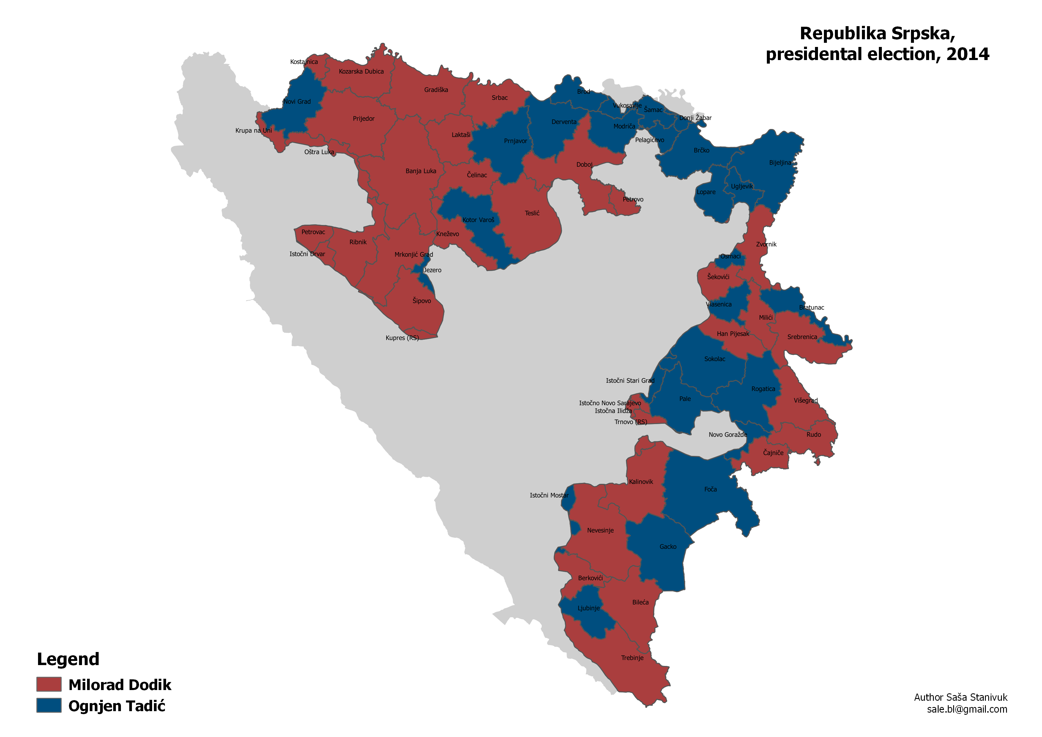 Republika Srpska, presidental election map, 2014